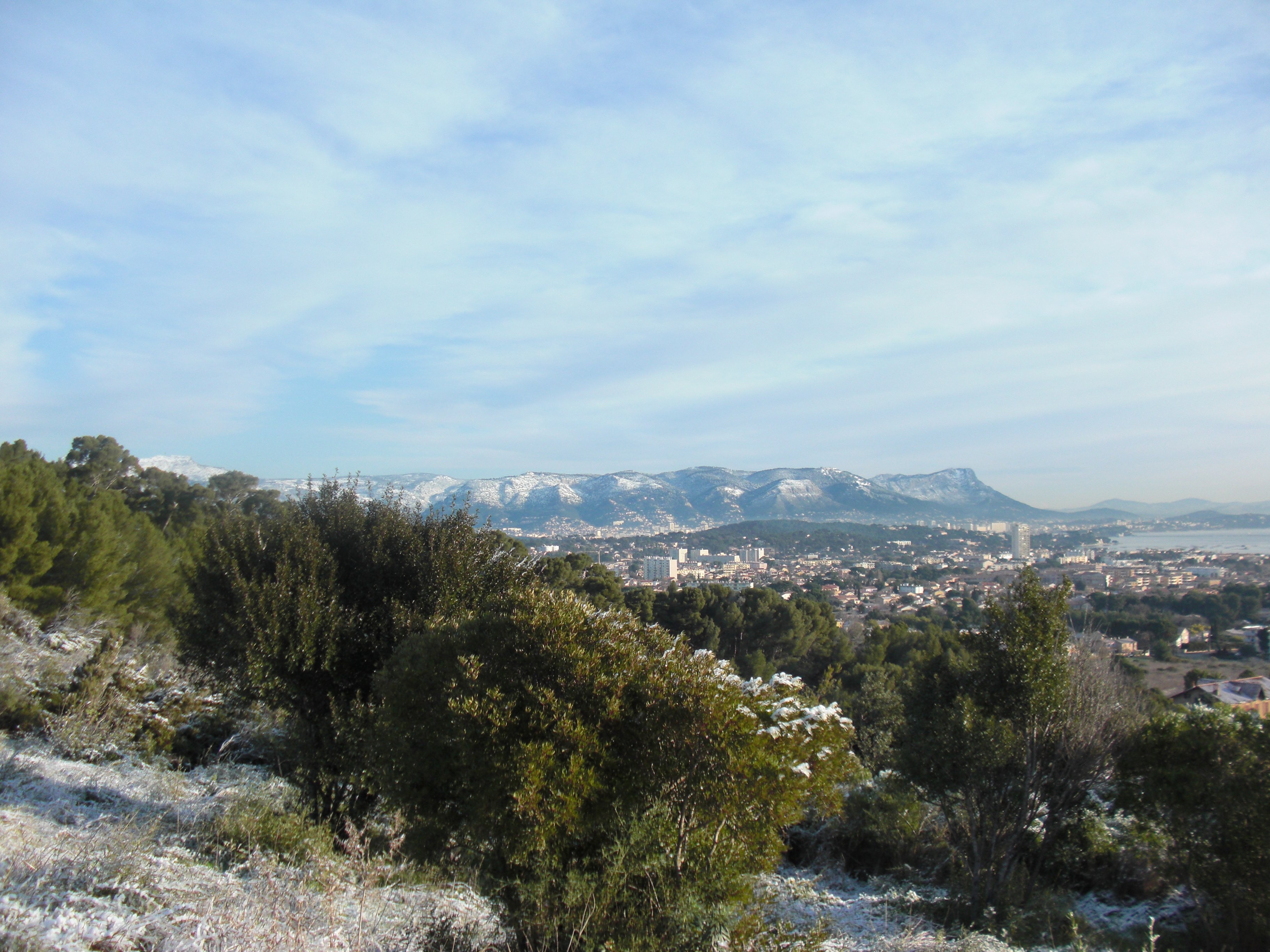 Snow on Toulon's mounts